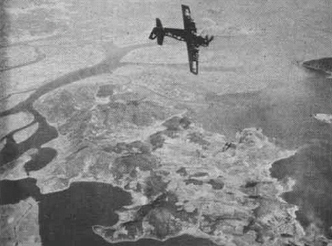 Two Douglas AD-2 Skyraiders of U.S. Navy attack squadron VA-702 Rustlers rolling in on a target during the Korean War in 1951. VA-702 was a Naval Reserve squadron actviated on 20 July 1950 and assigned to Carrier Air Group 101 (CVG-101). It was deployed to Korea on the aircraft carrier USS Boxer (CV-21) from 2 March to 24 October 1951. On 4 February 1953 VA-702 was redesignated VA-145.